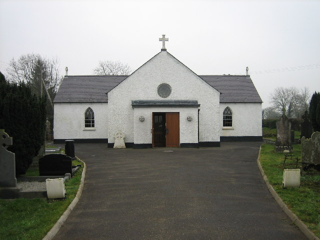 St James' Church Aldergrove. The present building was erected in 1836. After extensive renovation and refurbishment, following a fire in 1998, the Church was dedicated by Most Rev. Patrick Walsh on 26 March 2000. It's a lovely, peaceful place.